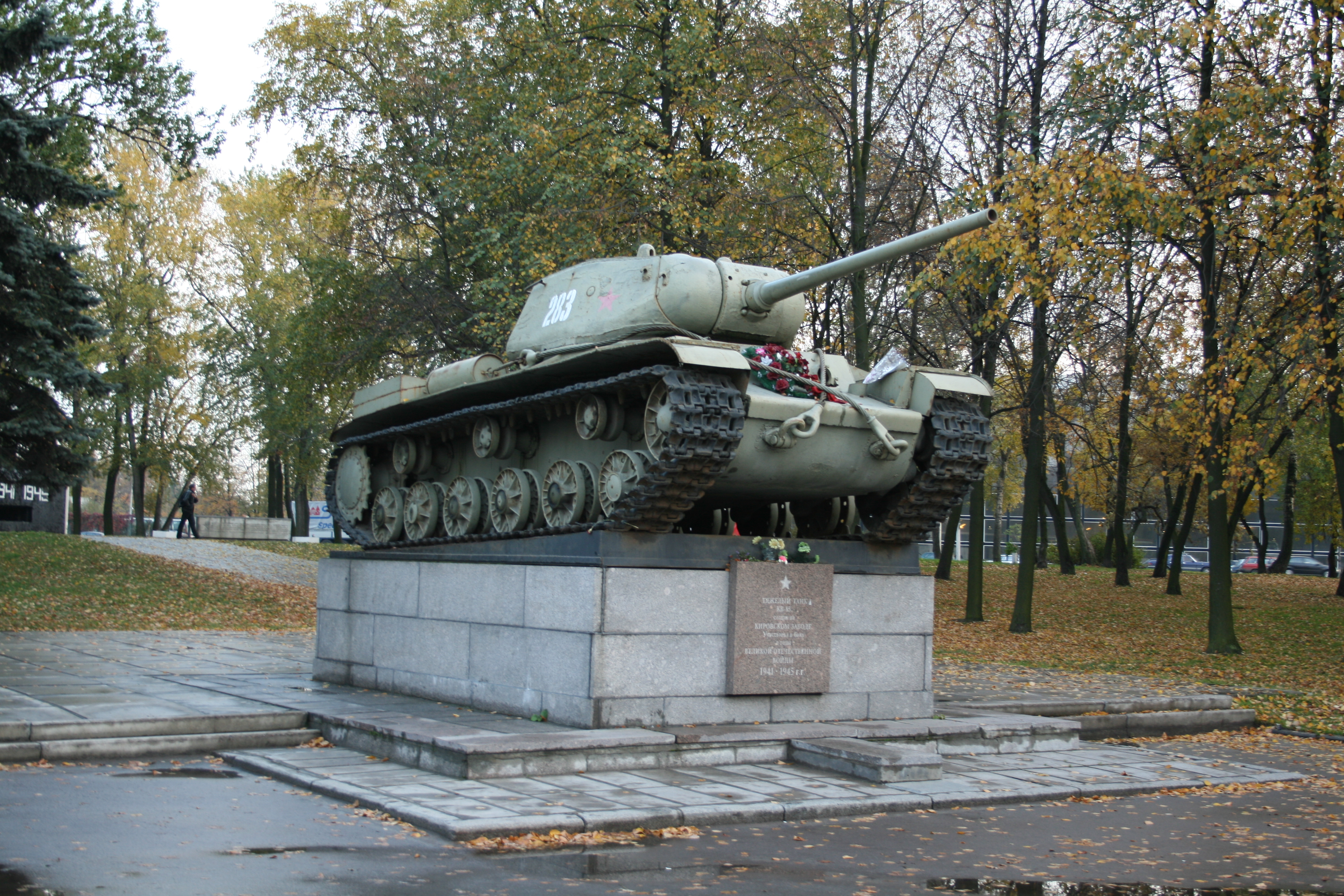 KV-85 in Avtovo (Saint-Petersburg)